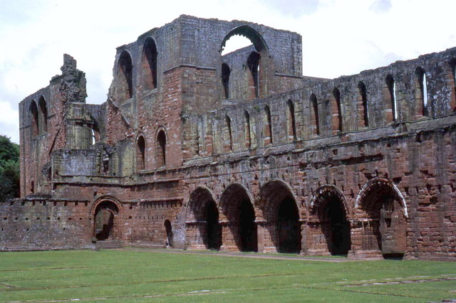 Furness Abbey